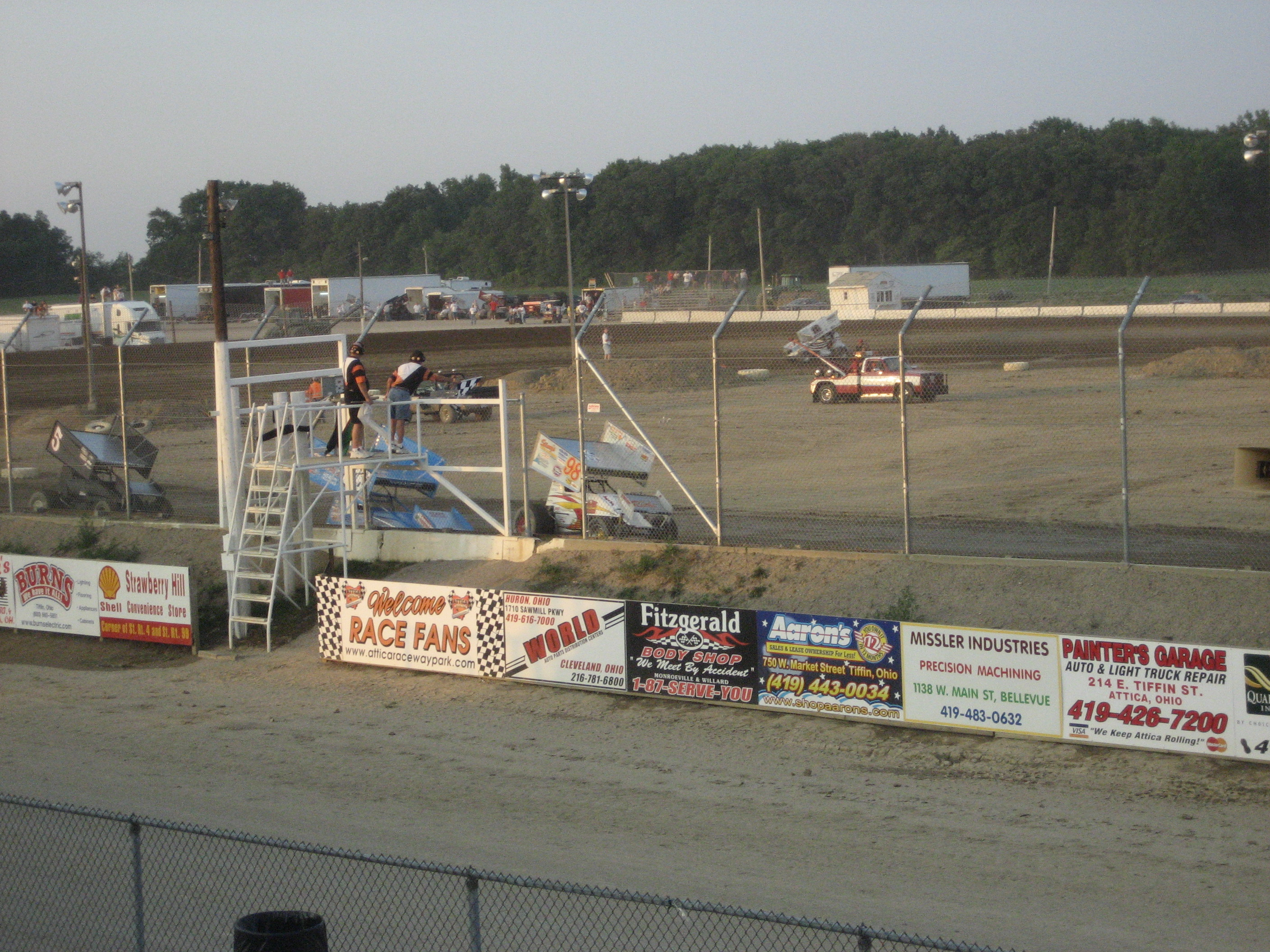 Photo Finish at Attica Raceway Park near Attica, Ohio.